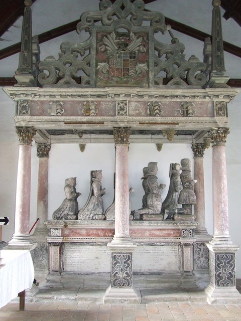 Monument in St Mary's parish church, Denham, Suffolk, to Sir Edward and Lady Lewkenor,who died of smallpox in 1605. The kneeling figures represent their eight children.